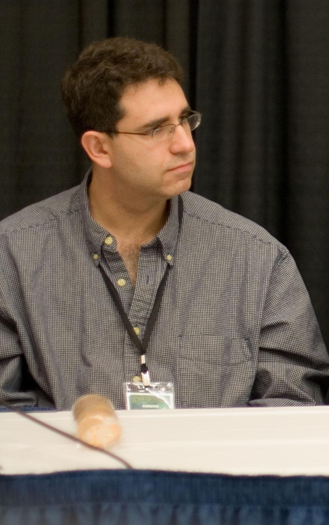 Steve Lieber at the Stumptown Comics Fest 2006. Cropped from an image featuring Steve Lieber, Paul Chadwick, and Kazu Kibuishi speak on graphic novelling.